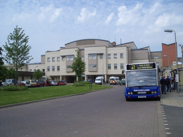 The Royal United Hospital in Bath, Somerset, England. The bus is Abus bus (reg. AP03 BUZ). It wears a decicated livery for a Park & Ride service operated by abus Ltd with financial assistance from the hospital and Bath & North East Somerset Council. Numbered route 42, the service operates from the Odd Down Park & ride site in the south of the city, through the south west suburbs of Southdown, Twerton and Weston, to the hospital, located in the west of the city. The service also operates as a flexible demand responsive service, for a defined area and time.